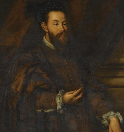 Posthumous portrait of Richard Bertie, part of a double portrait with his wife Catherine Willoughby. Their portraits were likely commissioned by Lady Anne Bertie (wife of Sir William Courtenay, 2nd Bart of Powderham Castle), a descendant of them in the 18th century, when it was not unusual to have portraits of respected ancestors painted, that had no existing contemporary portrait.